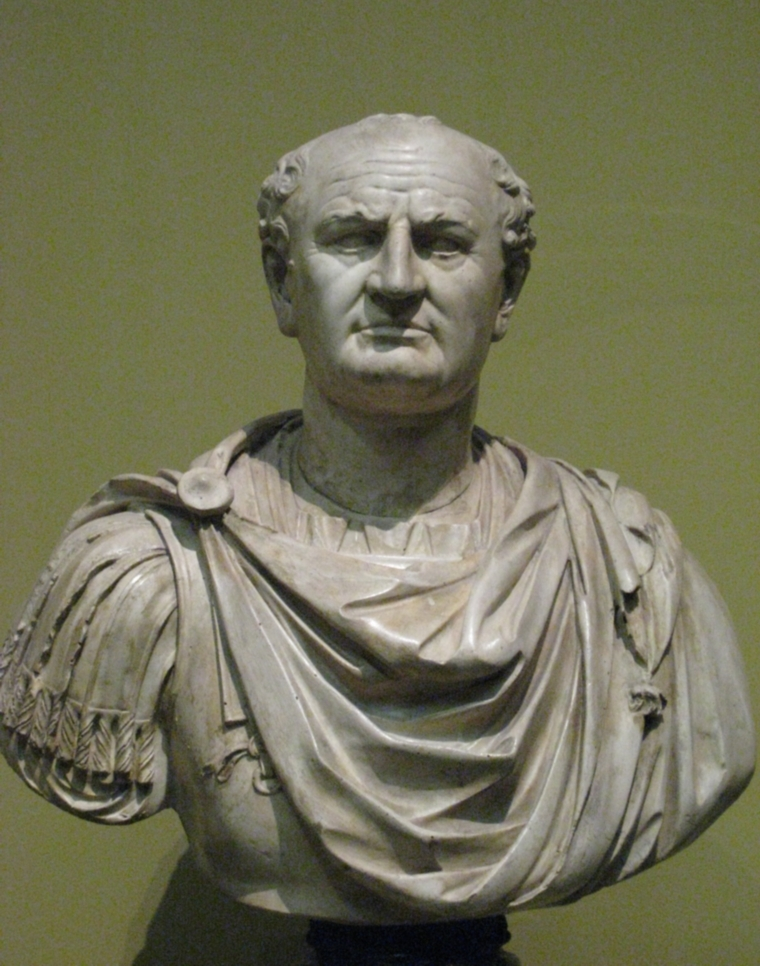 Vespasianus. Plaster cast in Pushkin museum after original in Louvre (L 1261), that was identified as modern art work and removed from collection